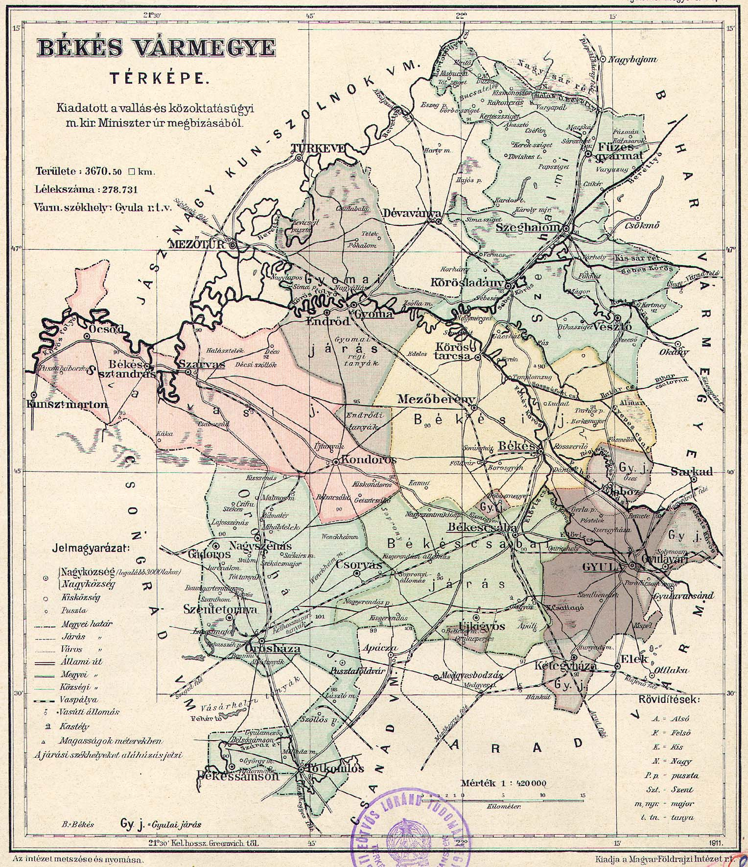 Administrative map of the county of Békés in the Kingdom of Hungary